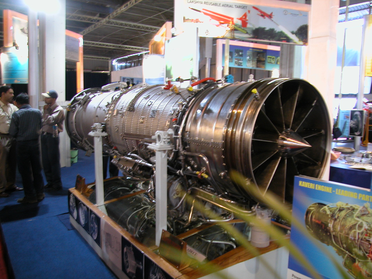 Kaveri aero in Aero India 2007